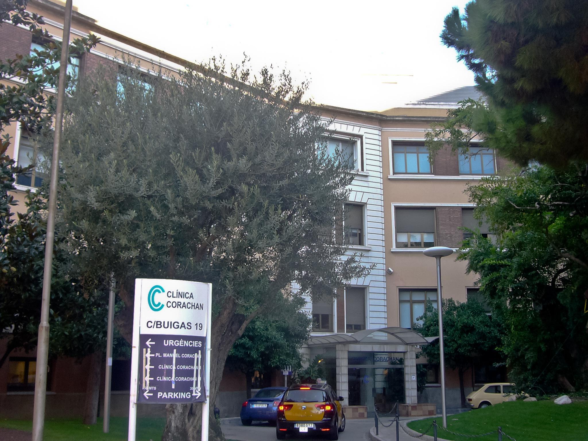 Clínica Corachan, in C/ Buigas 19, Tres Torres, Barcelona